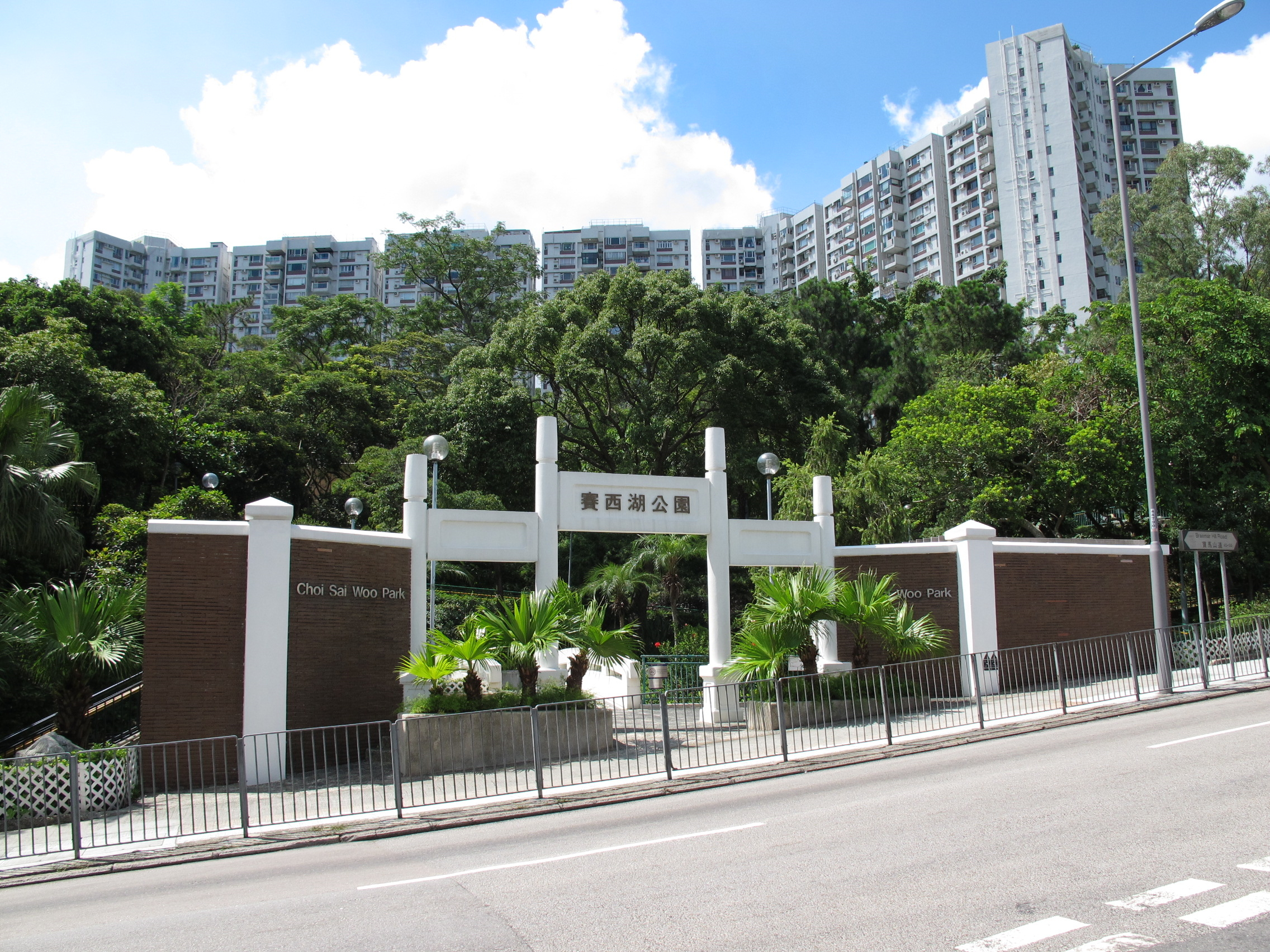 Choi Sai Woo Park Entrance Gate